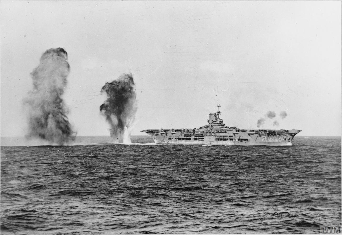 The Royal Navy during the Second World War Bombs falling astern of HMS ARK ROYAL during an attack by Italian aircraft during the Battle of Cape Spartivento (photograph taken from the cruiser HMS SHEFFIELD).